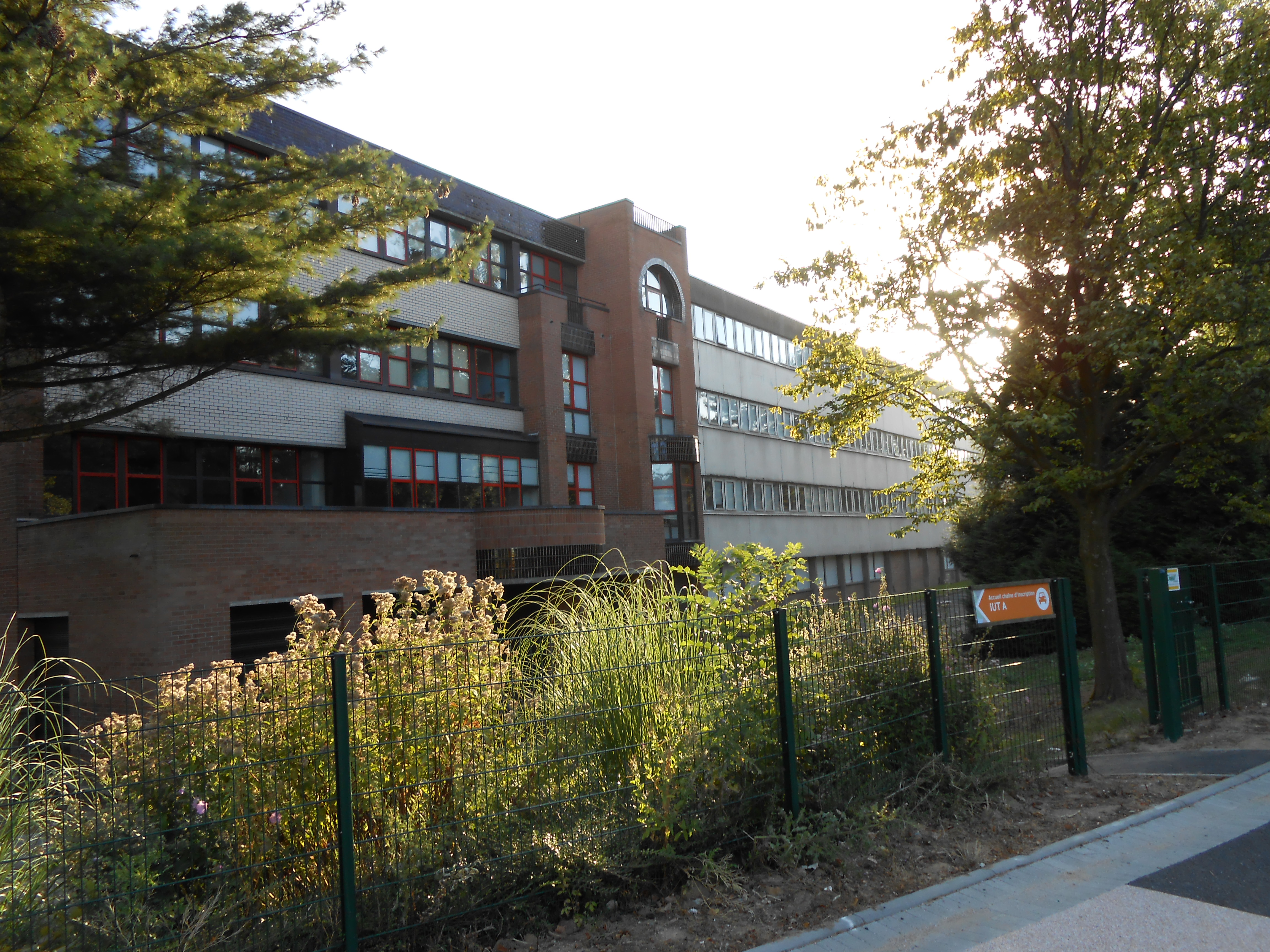 École centrale de Lille - Building C - LAGIS L2EP LEMAC laboratories - electrotechnics, power electronics, micro-electronics, automatic control, Computer science, image, telecom, embedded systems, signal processing, Dynamic system simulations with Petri nets and Bond Graph, robotics, transportation systems, railways automation, logitics engineering, health support micro-systems, magneto-acoutics, MEMS microsystems, sensors and actuators, Cité scientifique, avenue Paul Langevin Villeneuve d'Ascq Université Lille Nord de France